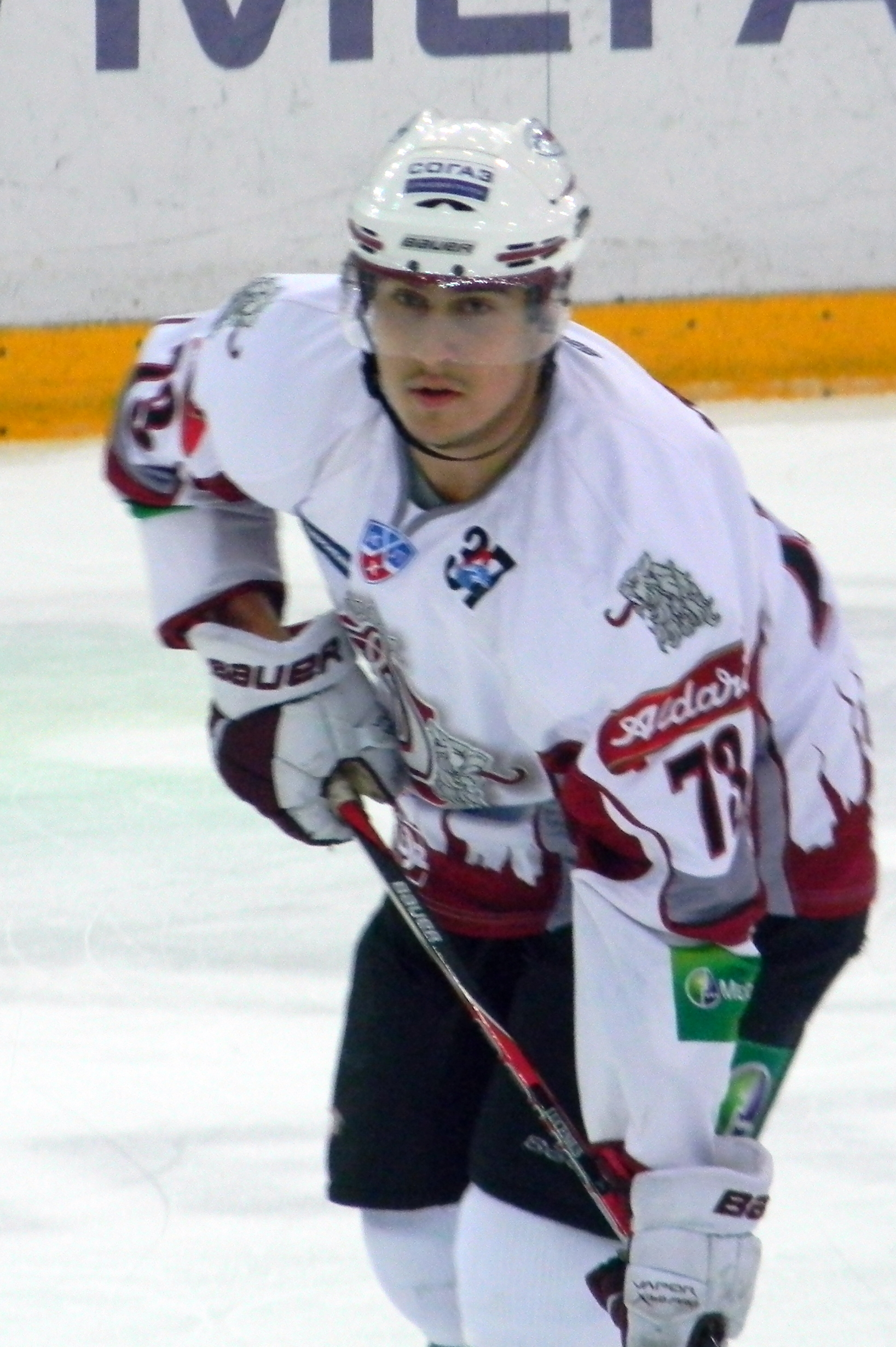 Niclas Lucenius, a hockey player from Torpedo Nizhny Novgorod